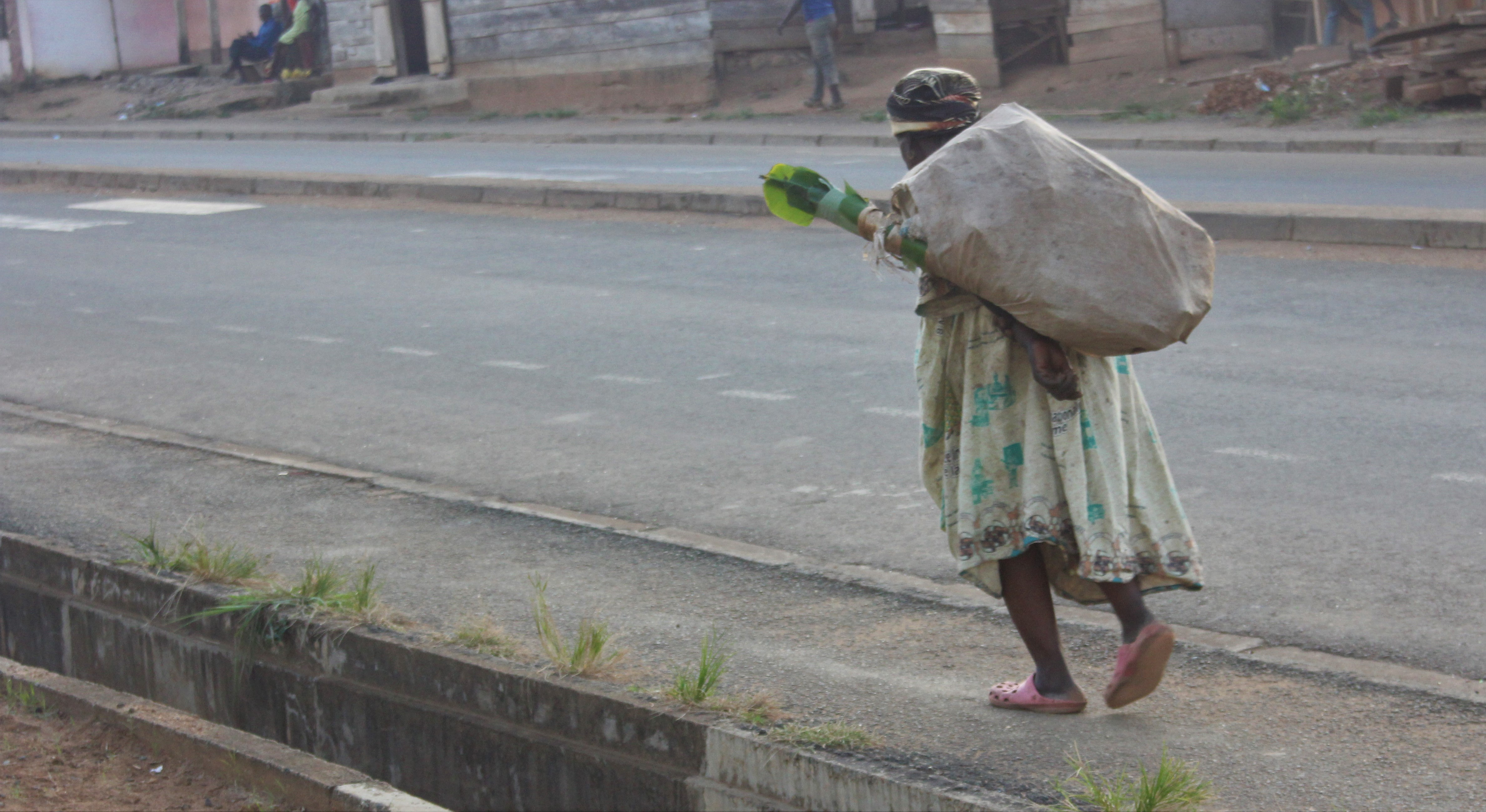 This lady is on her way home after spending most of the day in her farm. She carries on her back necessities... This is an image of "African people at work" from Cameroon